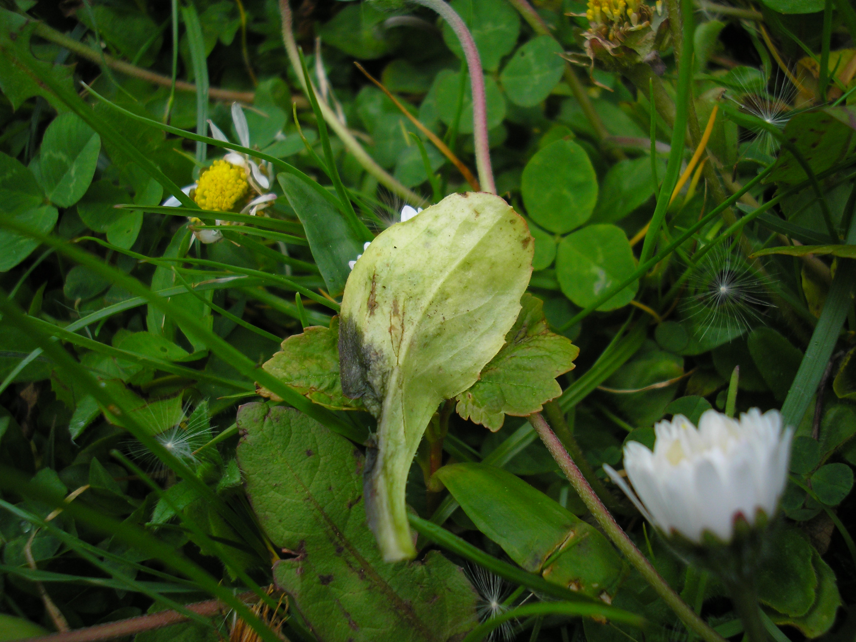 Bellis perennis infected by Entyloma bellidis